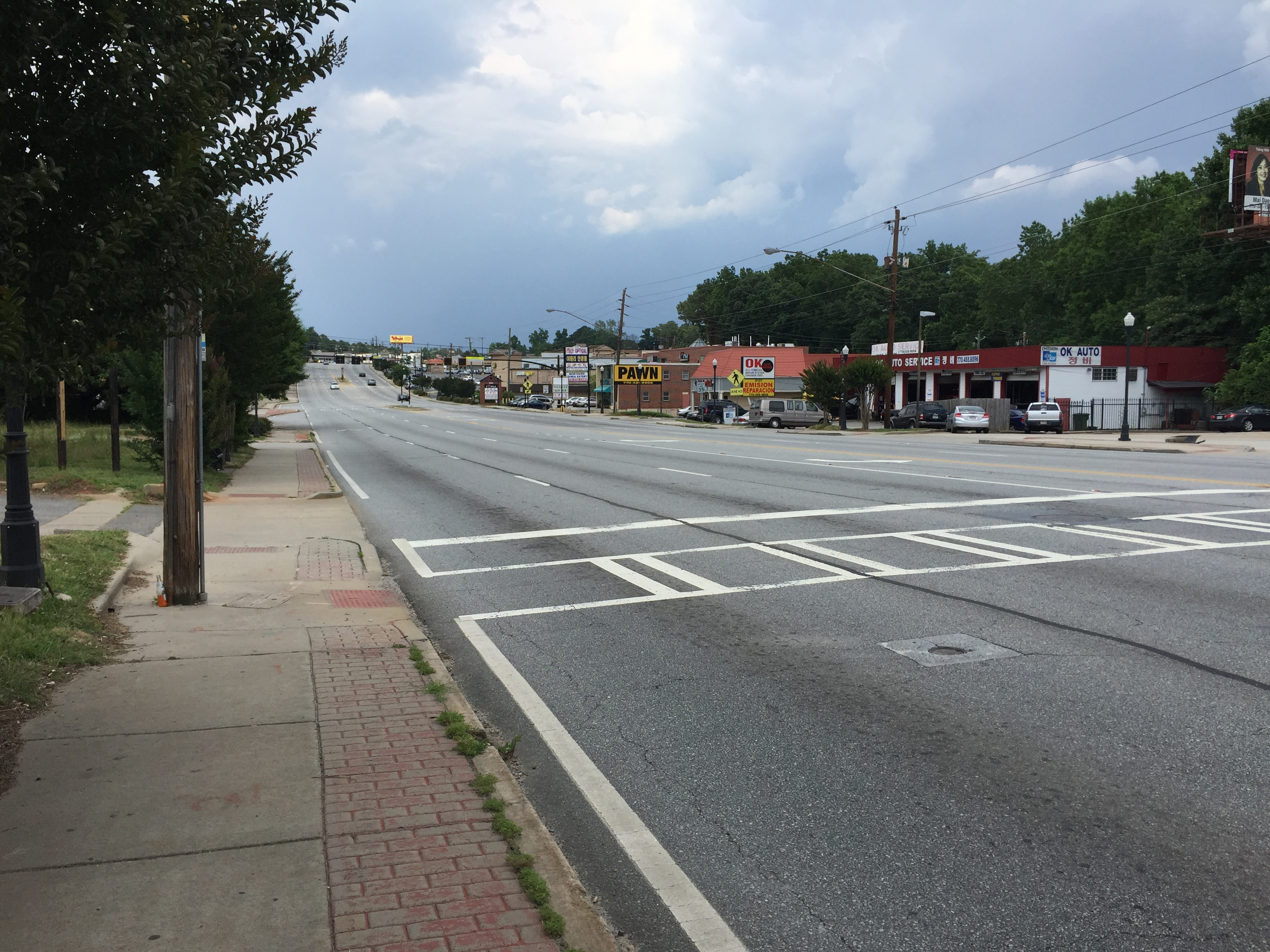 Buford Highway in June 2016